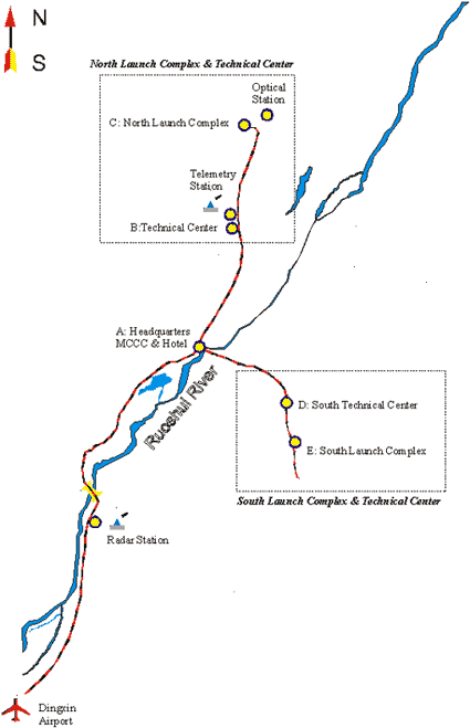 Map of the chinese Jiuquan Satellite Launch Center